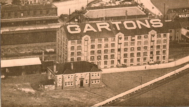 Gartons Limited's Warehouse and office at Arpley, Warrington